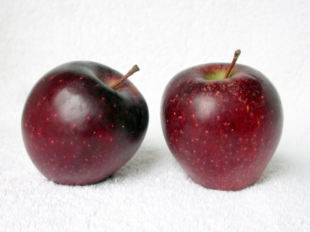 'Red chief' - Sport of Red delicious apple - Variante de la pomme "Red delicious"